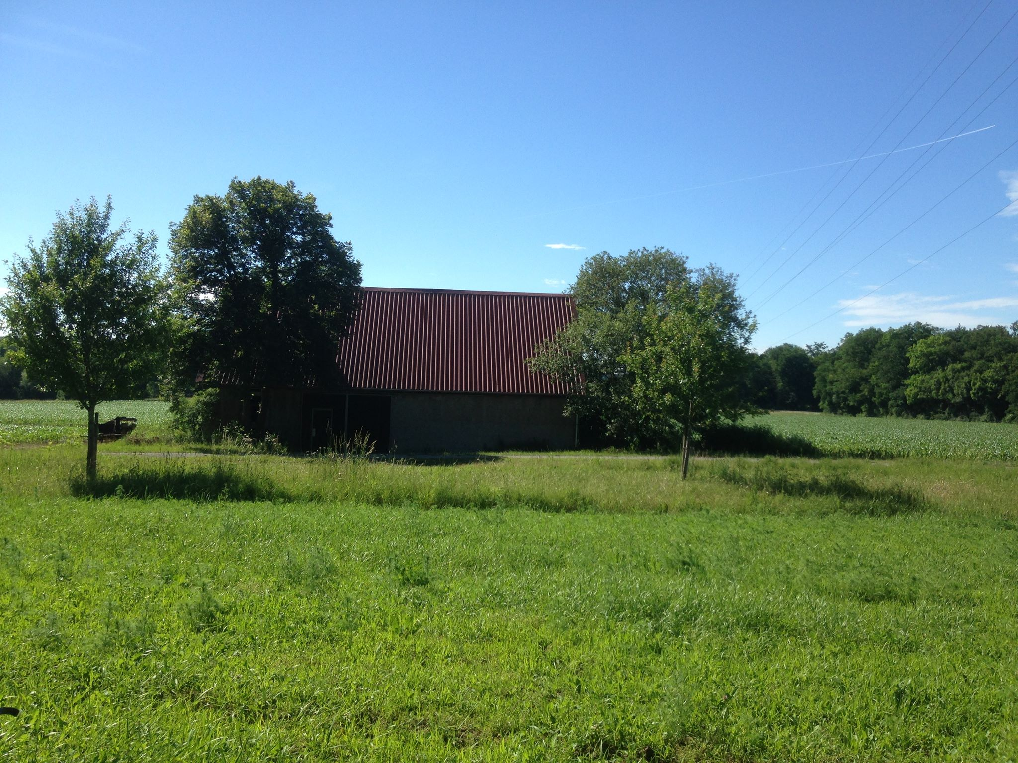 Barn in Rügerrieth, Bavaria, Germany